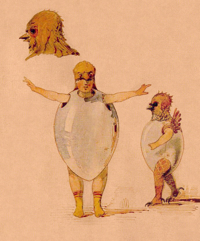 A costume sketch of canary chicks for the ballet Trilby by J. Gerber. It inspired Mussorgsky for his Ballet of the Unhatched Chicks from The Pictures at the Exhibition. The exhibition catalogue described the sketch: “Canary chicks, enclosed in eggs as in suits of armor. Instead of headdress, canary heads put on like helmets down to the neck.” Watercolor 17.6 x 25.3 cm. Institute of Russian Literature (Pushkin House), Academy of Sciences, St. Petersburg.